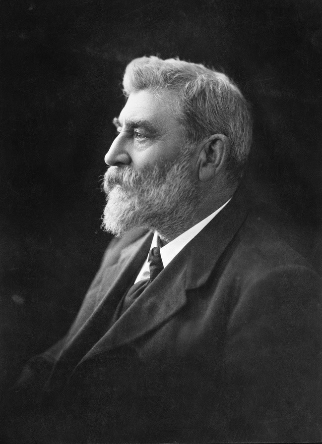 Portrait of John George Bice.